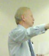 Empey cropped